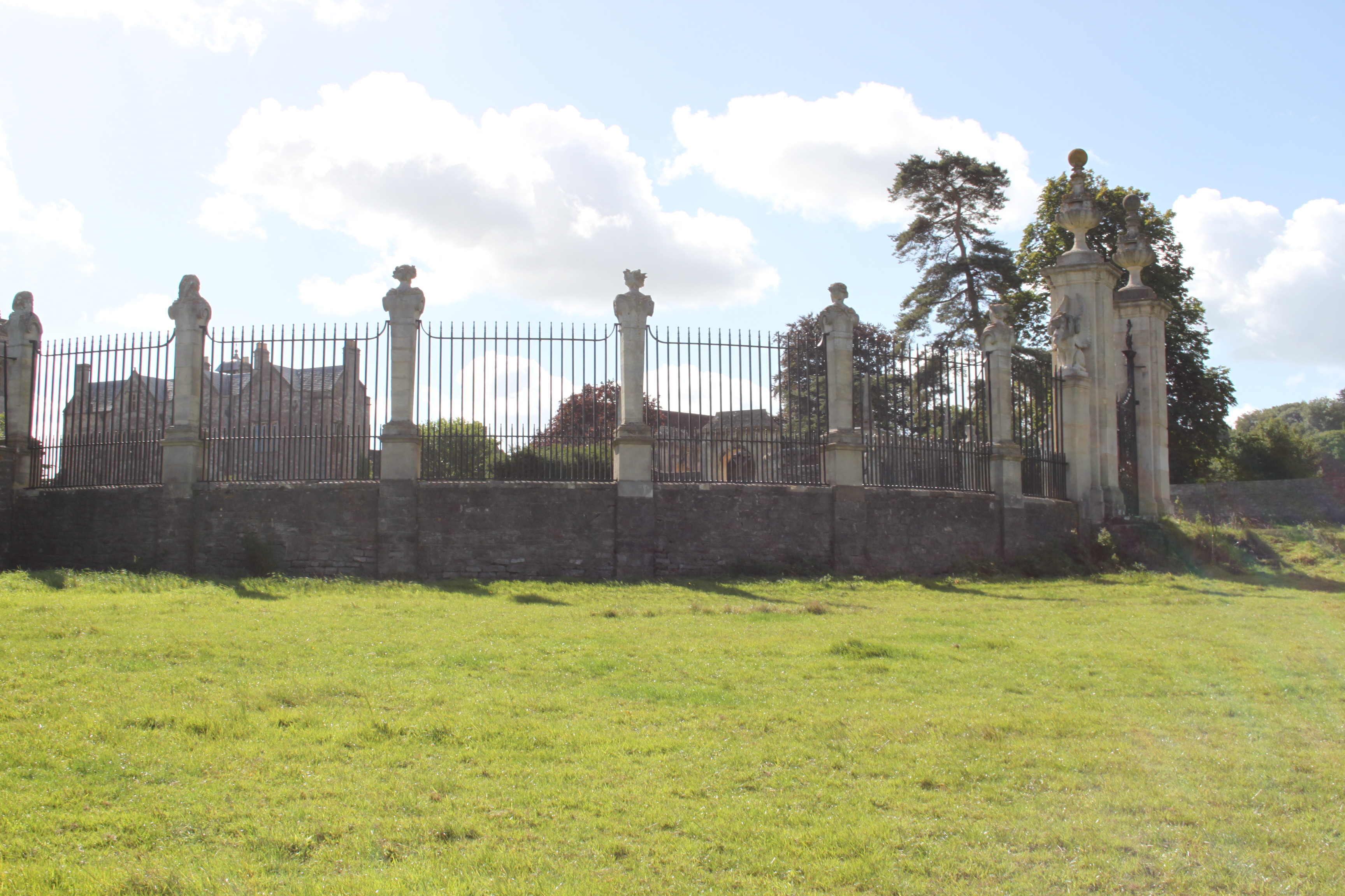 Gatepiers, Gates And Series Of 12 Pillars Forming West Boundary Wall Of Garden At Barrow Court